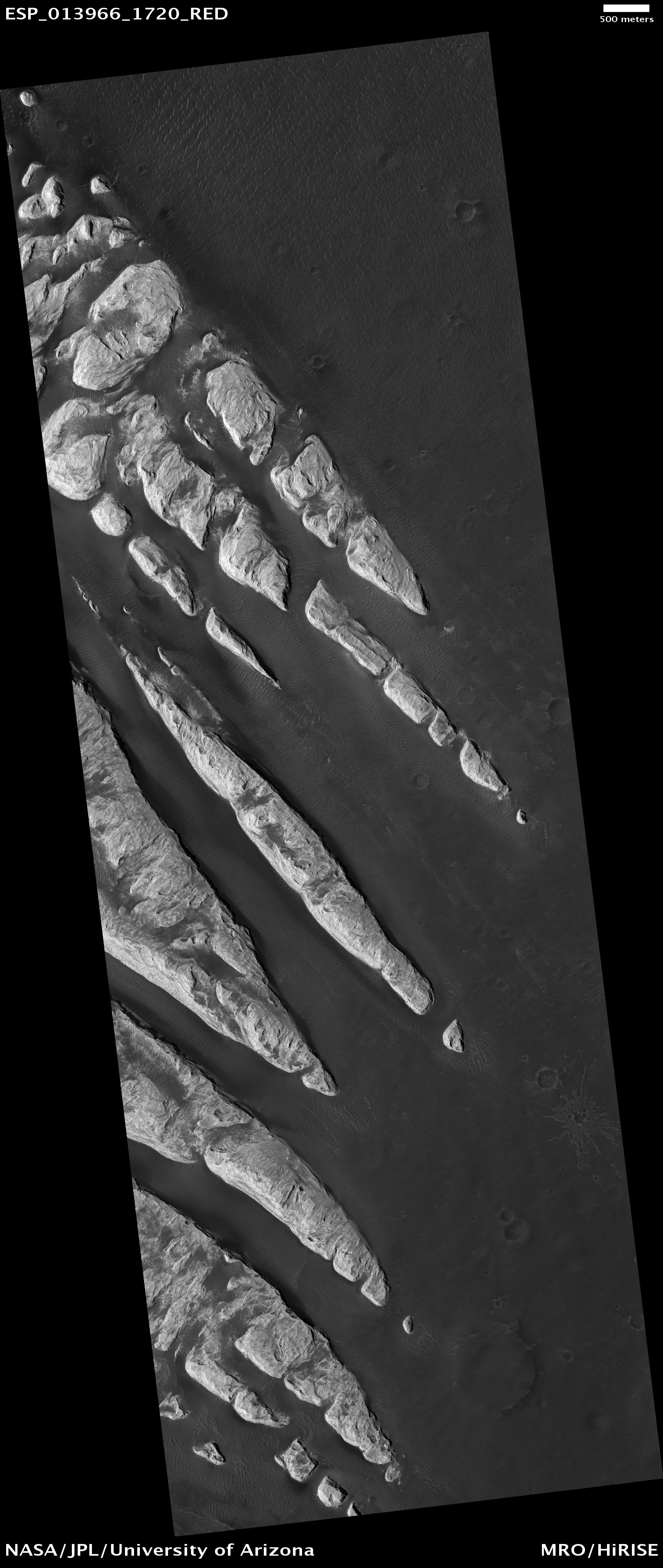 This is the white deposit inside Pollack Crater, as seen by hirise.